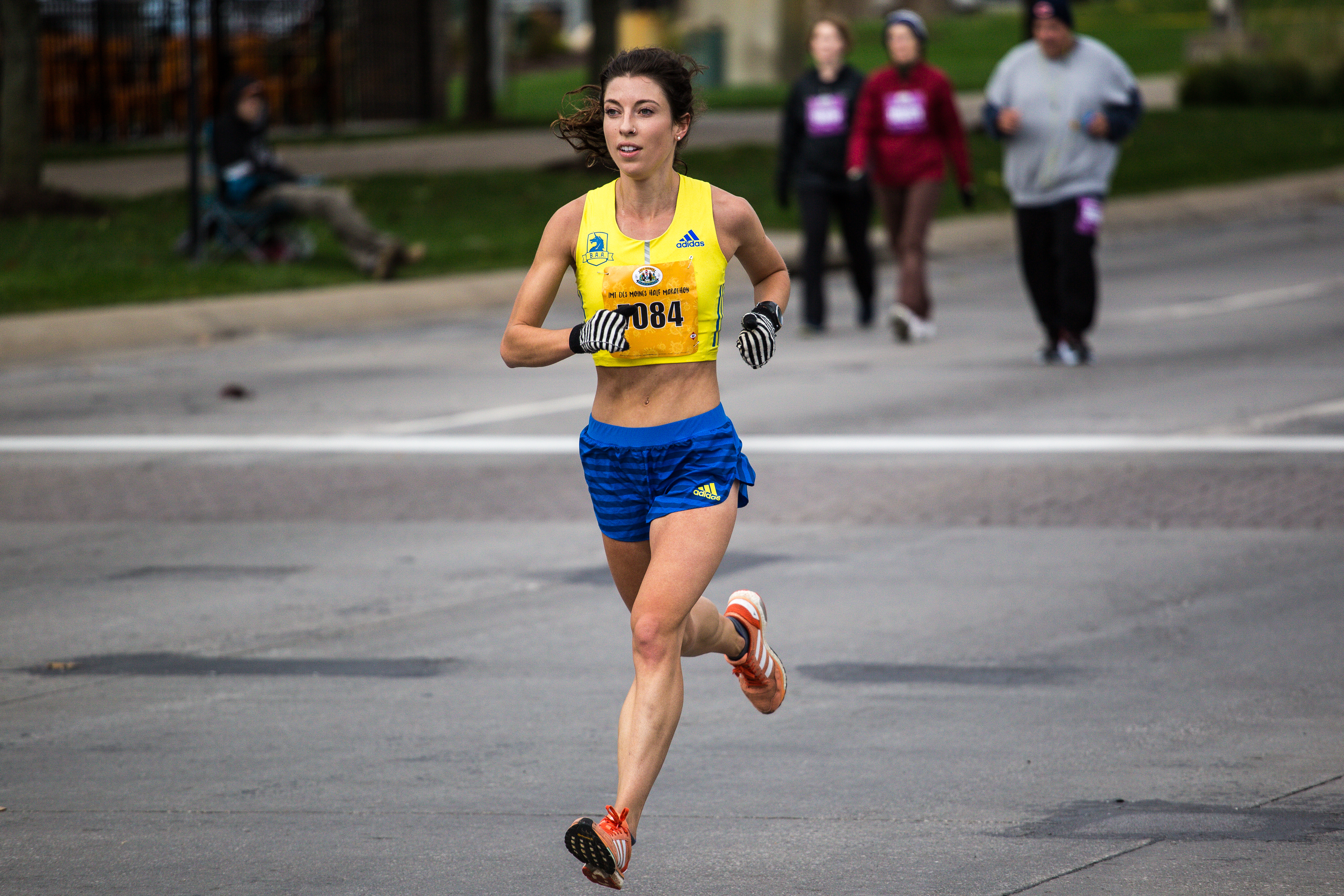 Women's half marathon winner Emma Bates. Photos from the 2017 IMT Des Moines Marathon, Half Marathon and 5K.